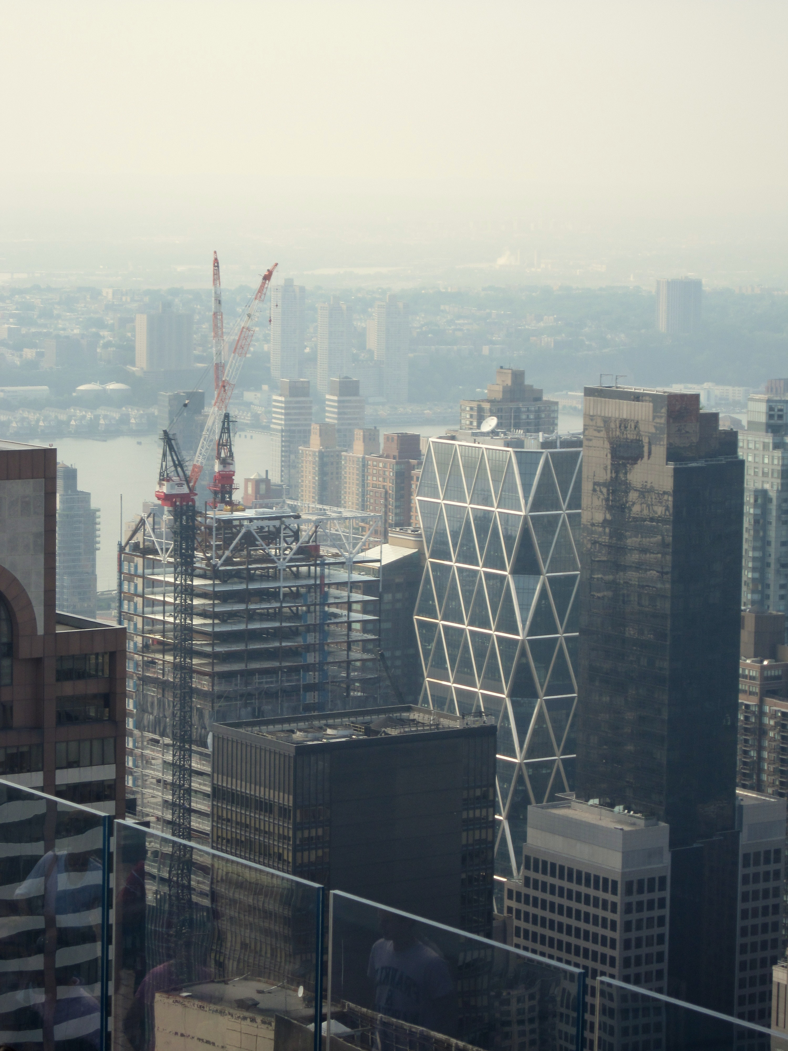 1717 Broadway under construction as seen from the Rockefeller Building in May 2012